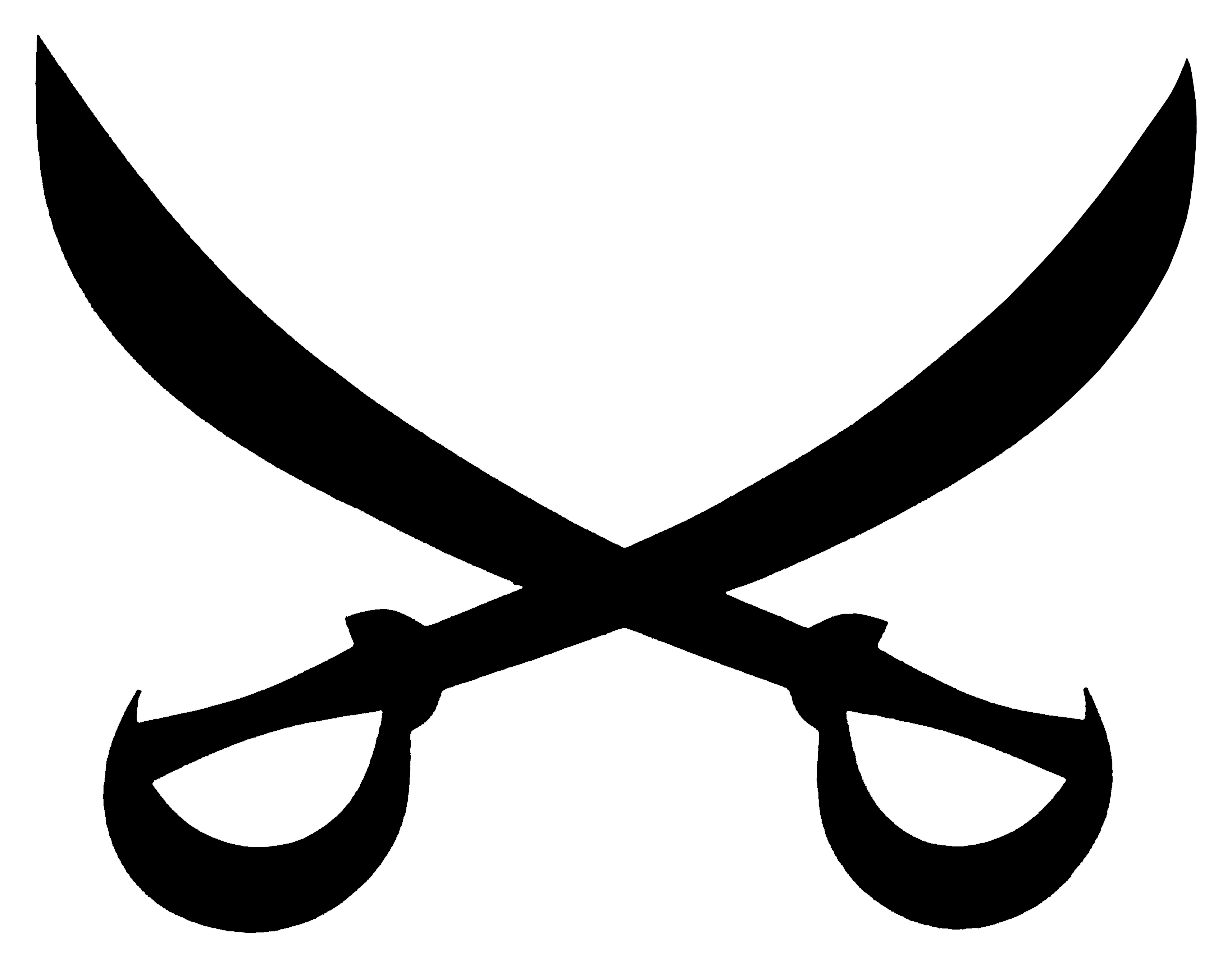 symbol used on sails for the Buccaneer sailboat